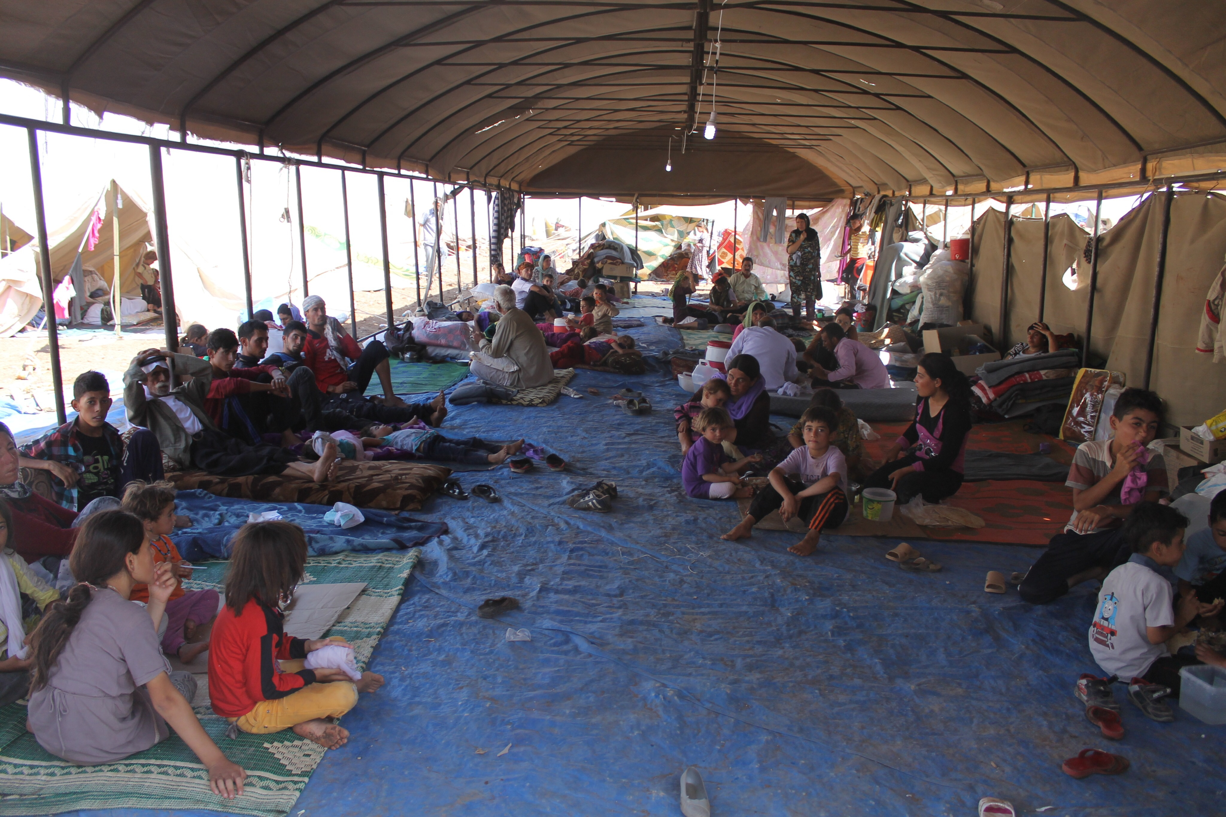 Yazidi refugees receiving support from the International Rescue Committee; original title: "Iraqi Yazidi refugees in Newroz camp receive help from International Rescue Committee"; original description: "Some of the 12,000 Iraqi Yazidi refugees that have arrived at Newroz camp in Al-Hassakah province, north eastern Syria after fleeing Islamic State militants. The refugees had walked up to 60km in searing temperatures through the Sinjar mountains and many had suffered severe dehydration. The International Rescue Committee is providing medical care at the camp as well as distributing blankets, soap, underwear and solar powered lights and mobile phone chargers.", picture taken on 13 August 2014, uploaded on flickr on 14 August 2014.